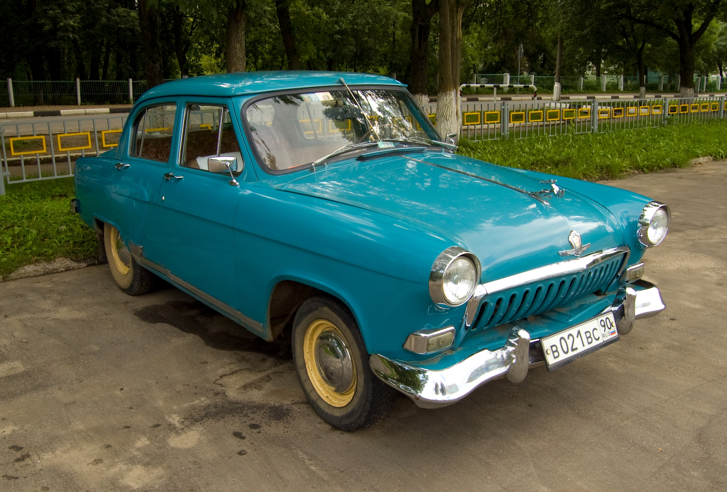 GAZ-21